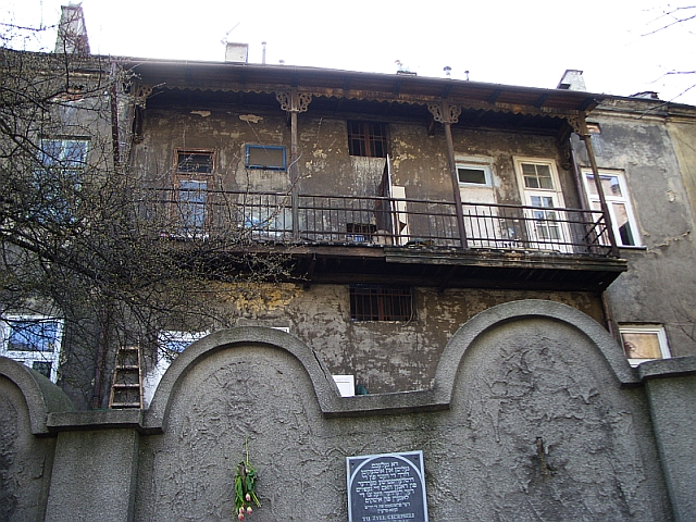 Krakow ghetto wall & home